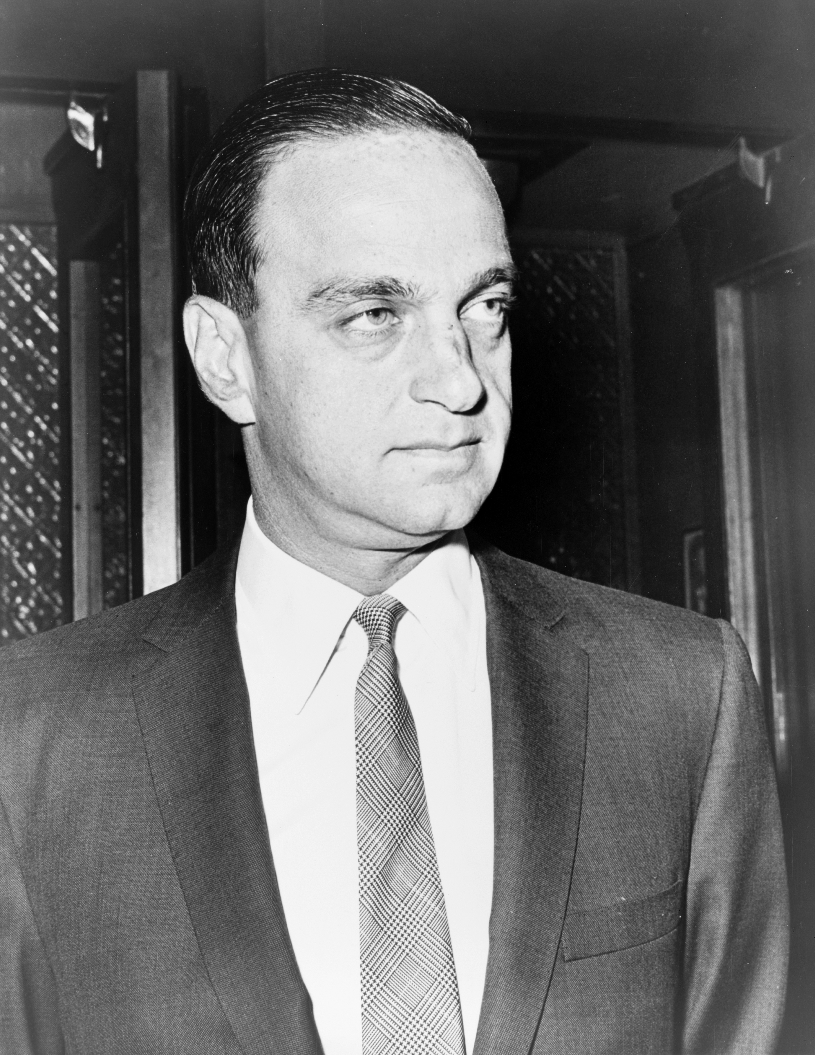 Roy Cohn, head-and-shoulders portrait, facing right / World Telegram & Sun photo by Herman Hiller.